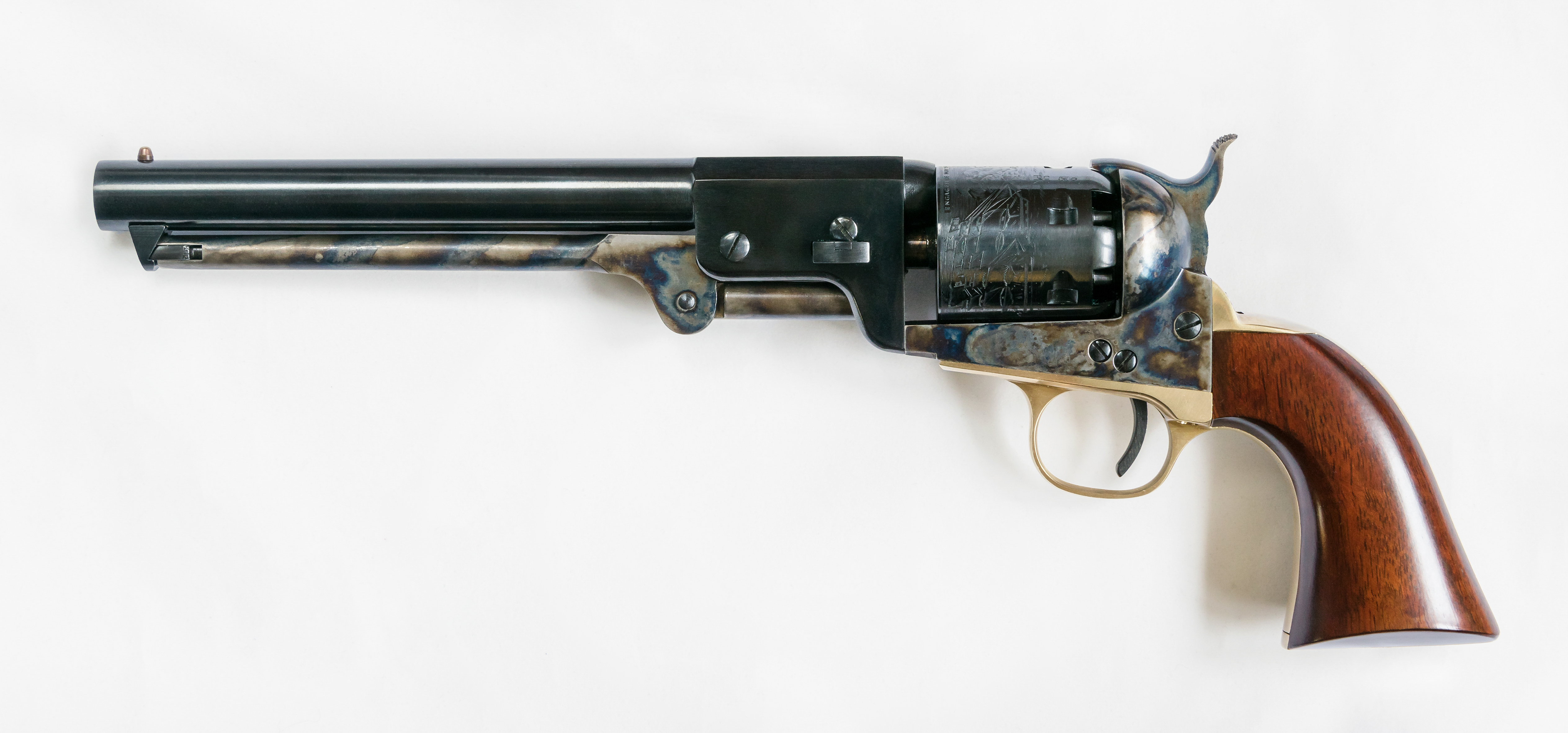 Colt Navy 1851, Leech&Rigdon version